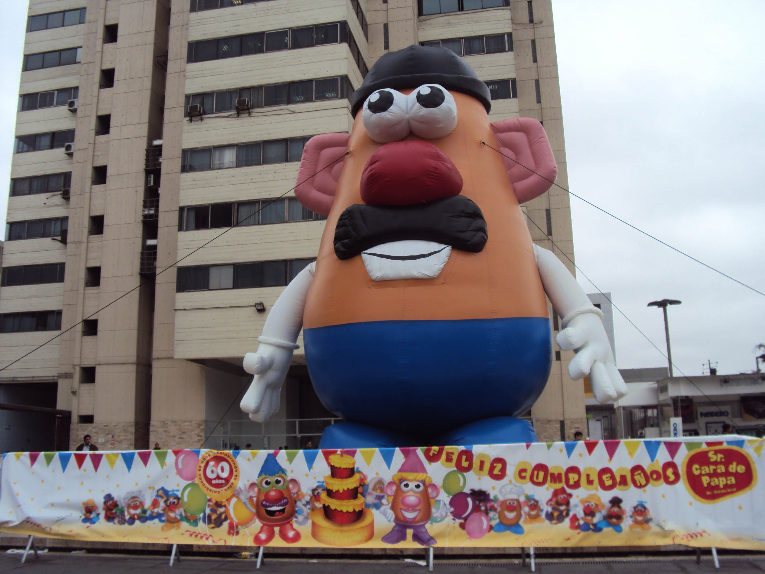 Mr. Potato Head Celebrates a Birthday in Lima, Peru.